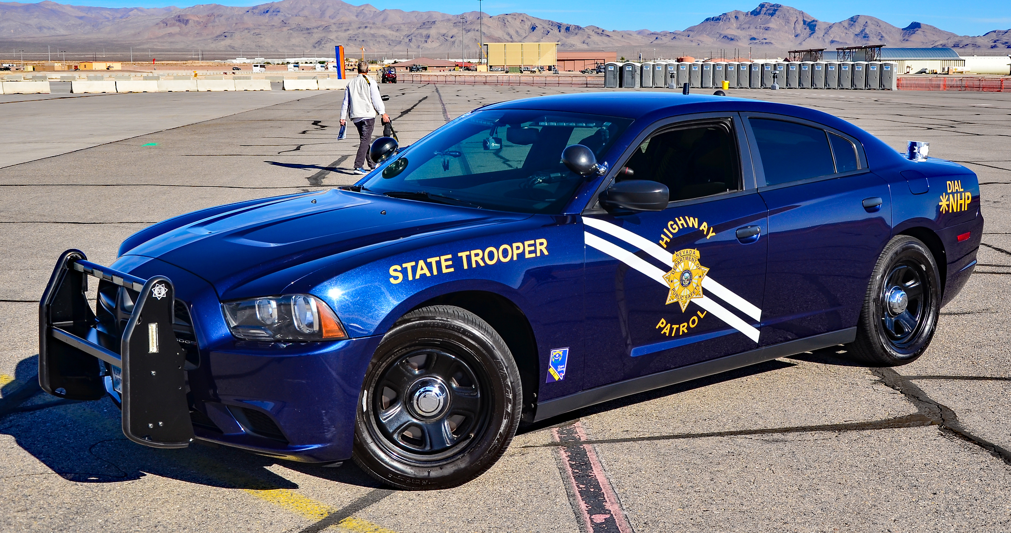 Aviation Nation 2017 Las Vegas - Nellis AFB (LSV / KLSV) USA - Nevada, November 11, 2017 Photo: TDelCoro